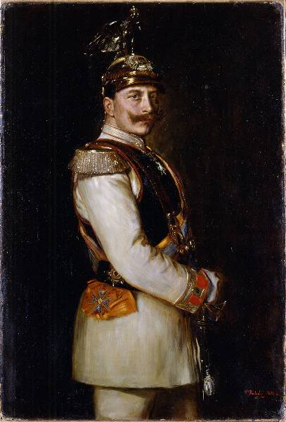 The portrait of William II. of Prussia painted by Hungarian artist Vilma Lwoff-Parlaghy.